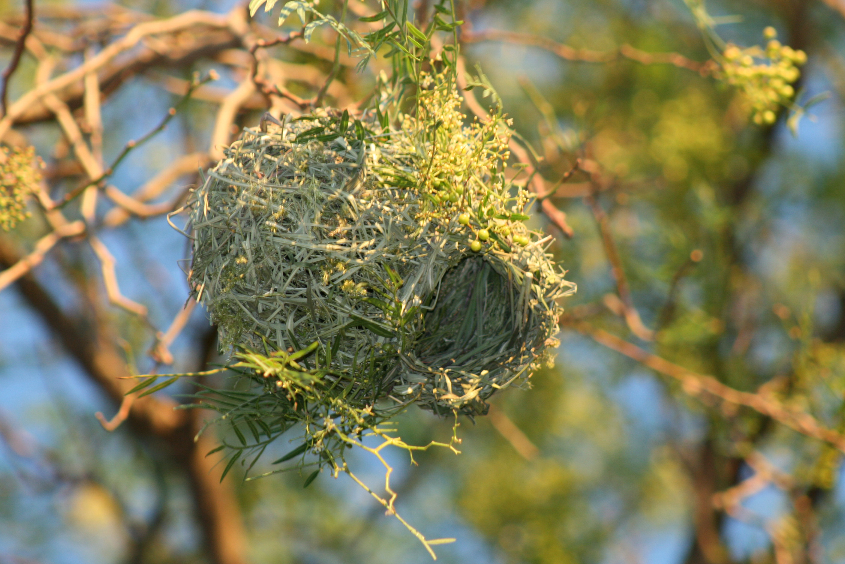 Nest of a Cape Weaver (Ploceus capensis)